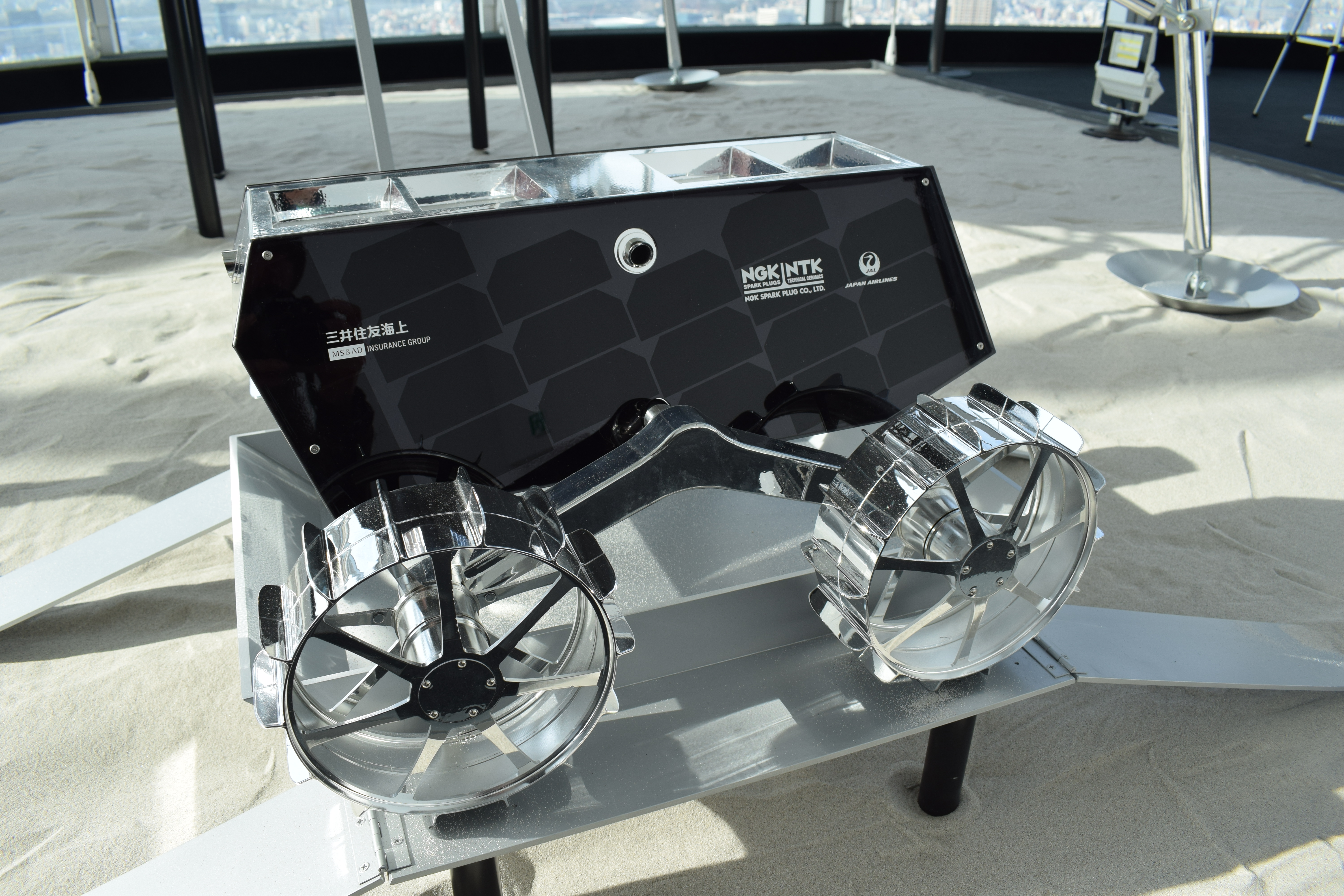 Hakuto's proposed Sorato lunar rover.